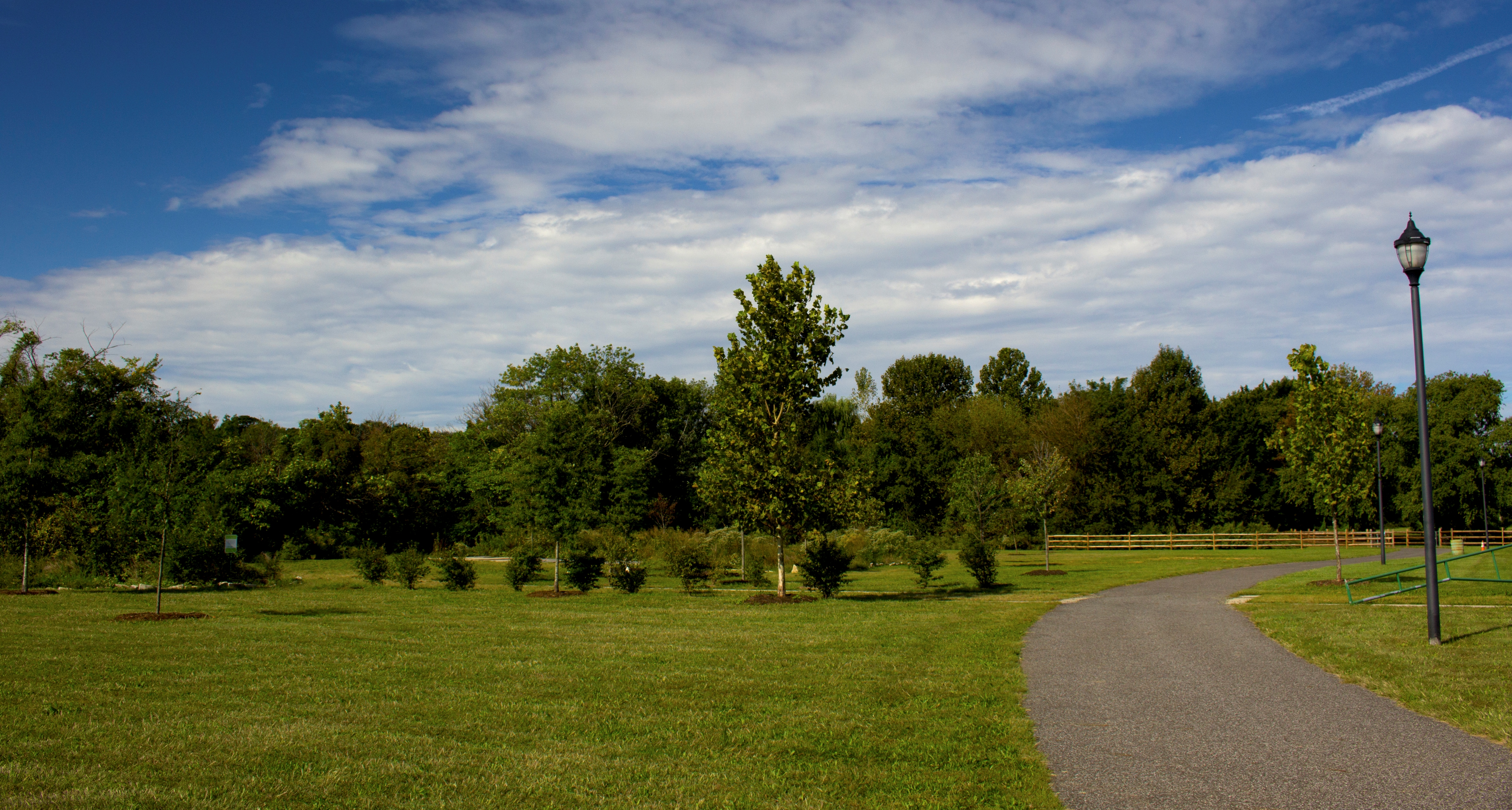 This image depicts a view within Gateway Park located in Camden NJ along the Cooper River.